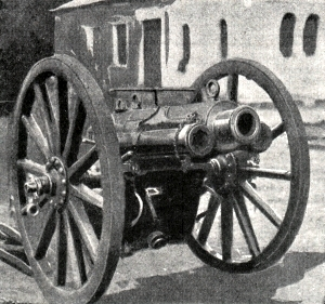 Photograph of British Vickers QF 2.95 inch Mountain Gun, Cameroons and Togoland campaign, World War I.